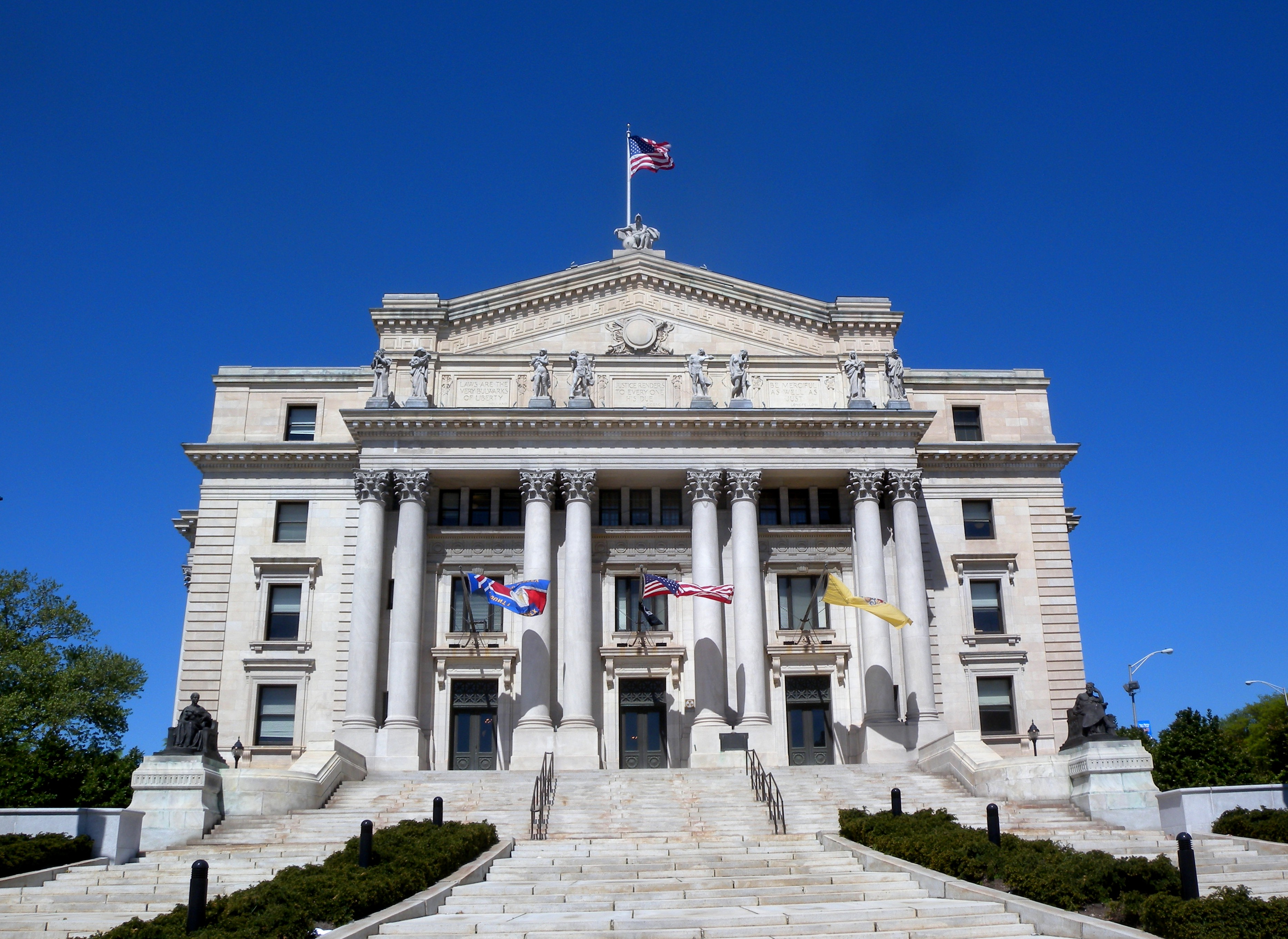 Looking northwest at Essex County Courthouse on a sunny morning.